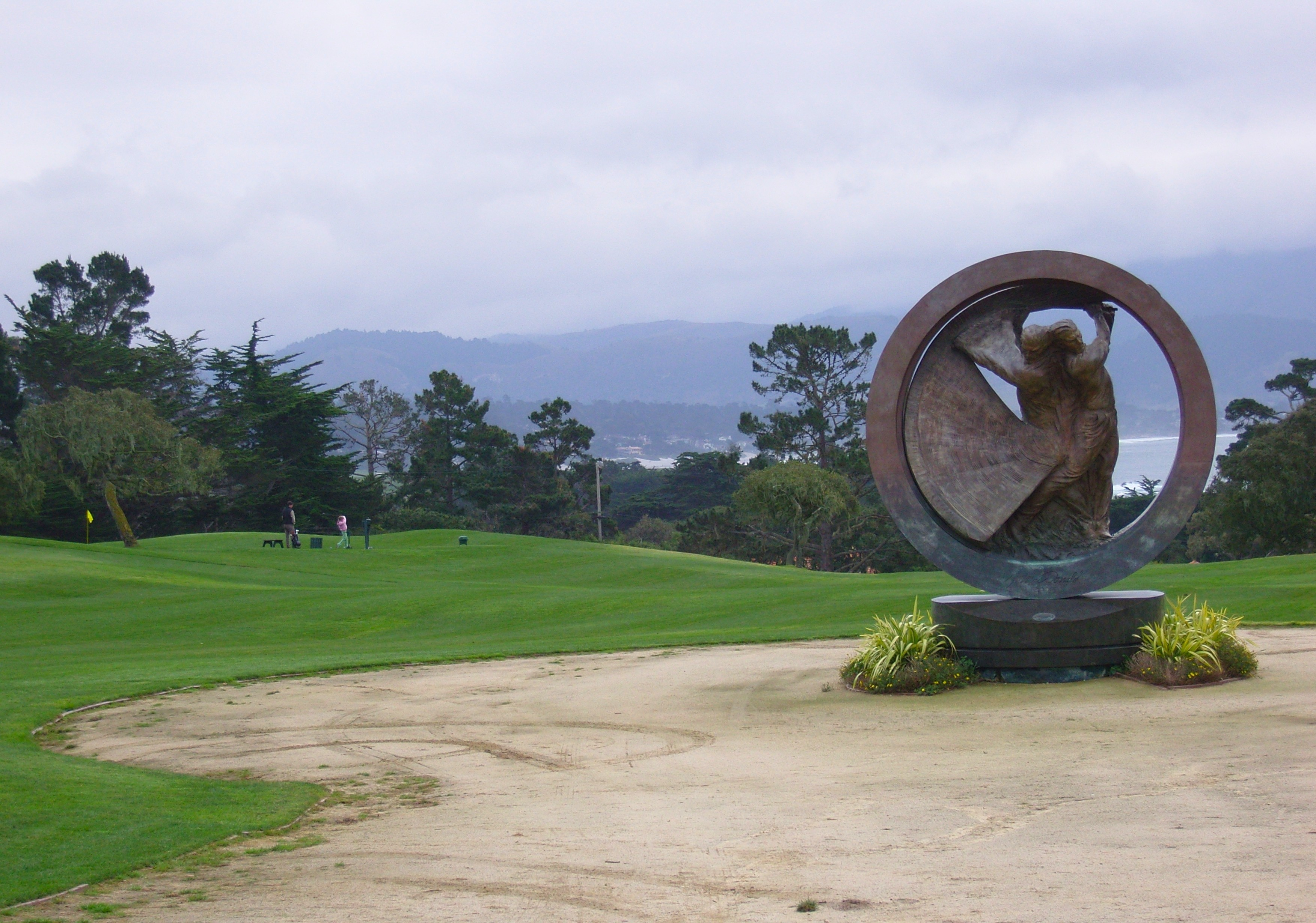 Monument commemorating the 100th U.S. Open, by Richard MacDonald (2000). Peter Hay Golf Course, Pebble Beach, California.